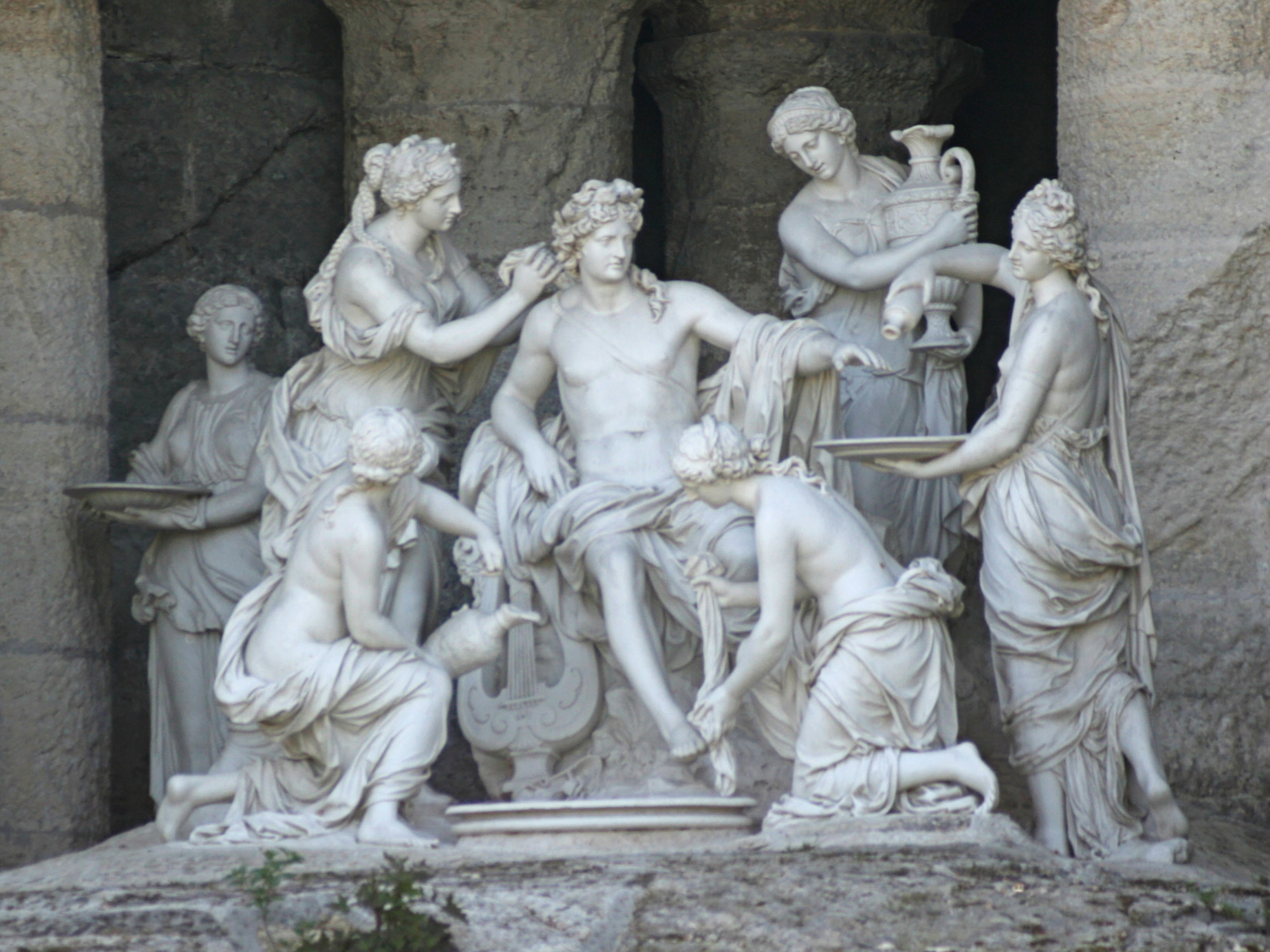 Apollo with five nymphs, in the grotto "Bosquet des bains d'Apollon" in the Palace of Versailles. It is the work of the two sculptors Girardon and Regnaudin.